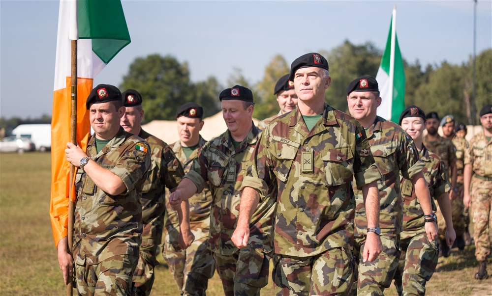 Members of the Irish delegation during the opening ceremonies of Exercise Combined Endeavor 2014. The goal of Combined Endeavor is to foster stronger alliance and regional relations and security arrangements through C4 systems interoperability testing between NATO and Partnership for Peace nations’ strategic and tactical communication systems.